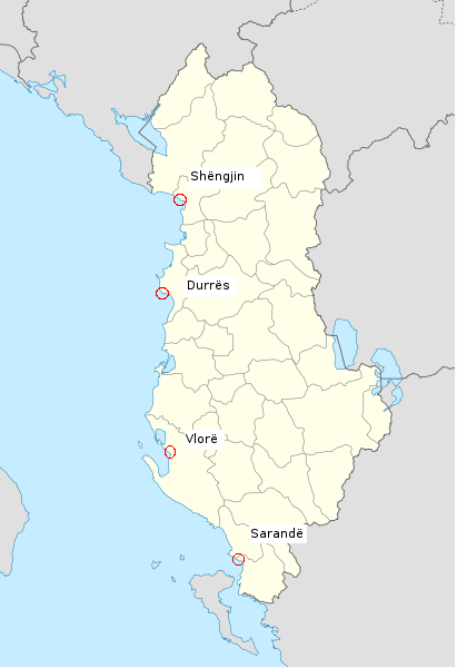 Using the Image:Albania location map.svg uploaded by User:Lencer - I have input the 4 sea port cities of Albania (Durrës, Vlorë, Sarandë and Shëngjin (Lezhë)) into the image to use this media at the Wikiversity learning resource: Albanian sea port history.